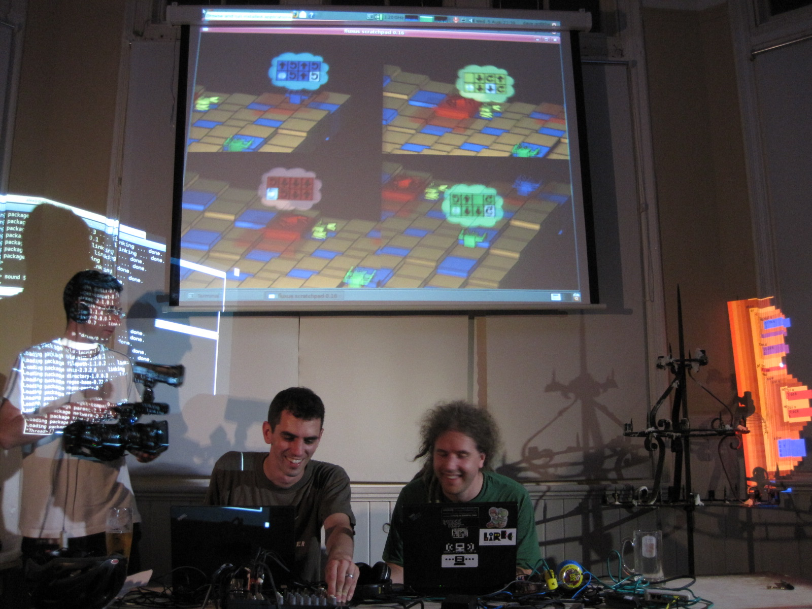 Slub performing live at the Roebuck pub in London. Photo by Philippa